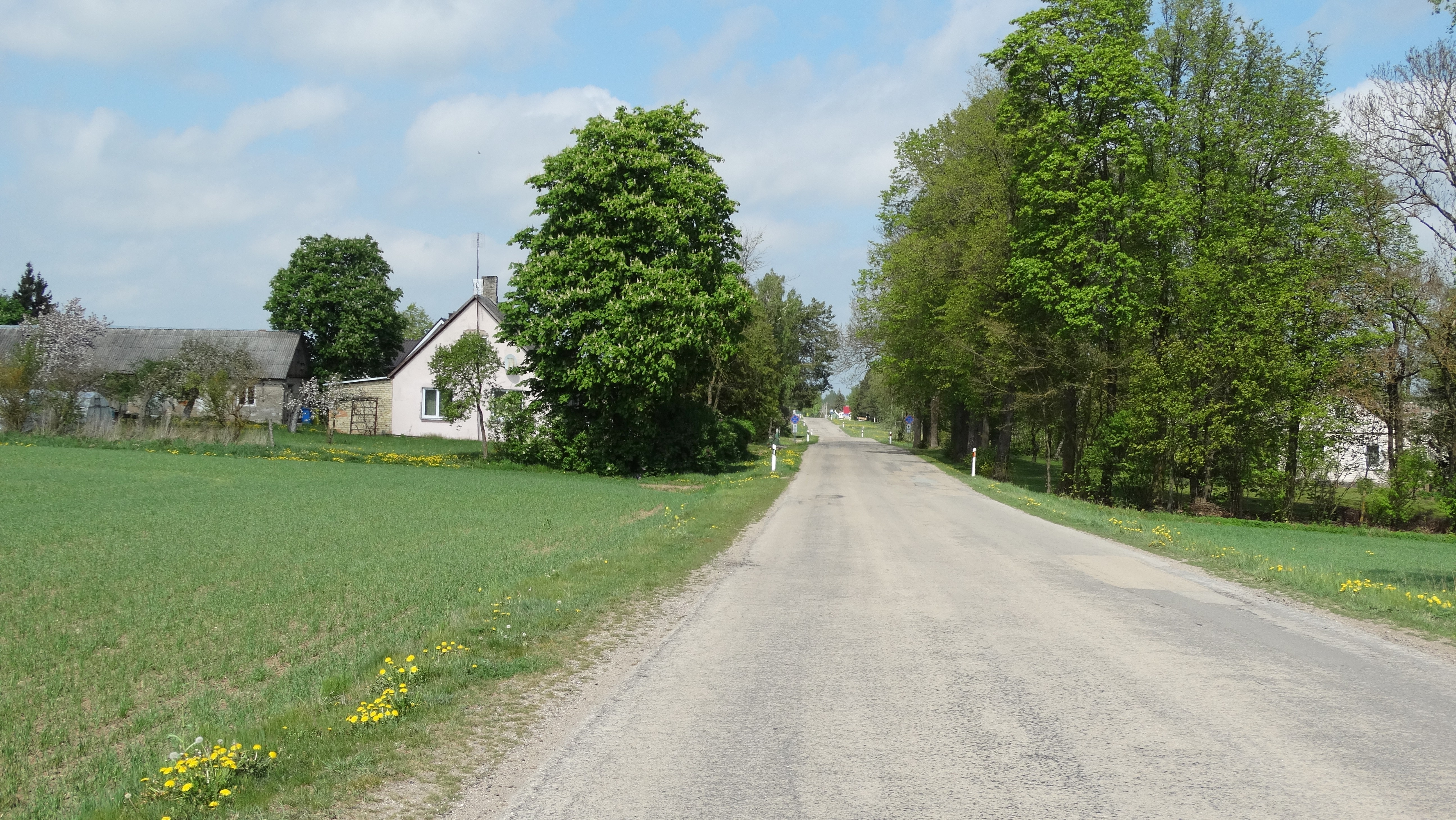 Akmenėliai (Žeimelis), Pakruojis district, Lithuania